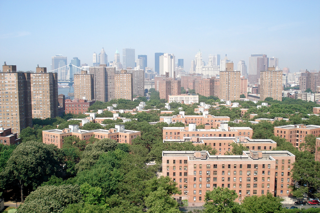 Looking west from Corlears Hook towards Manhattan Civic Center.